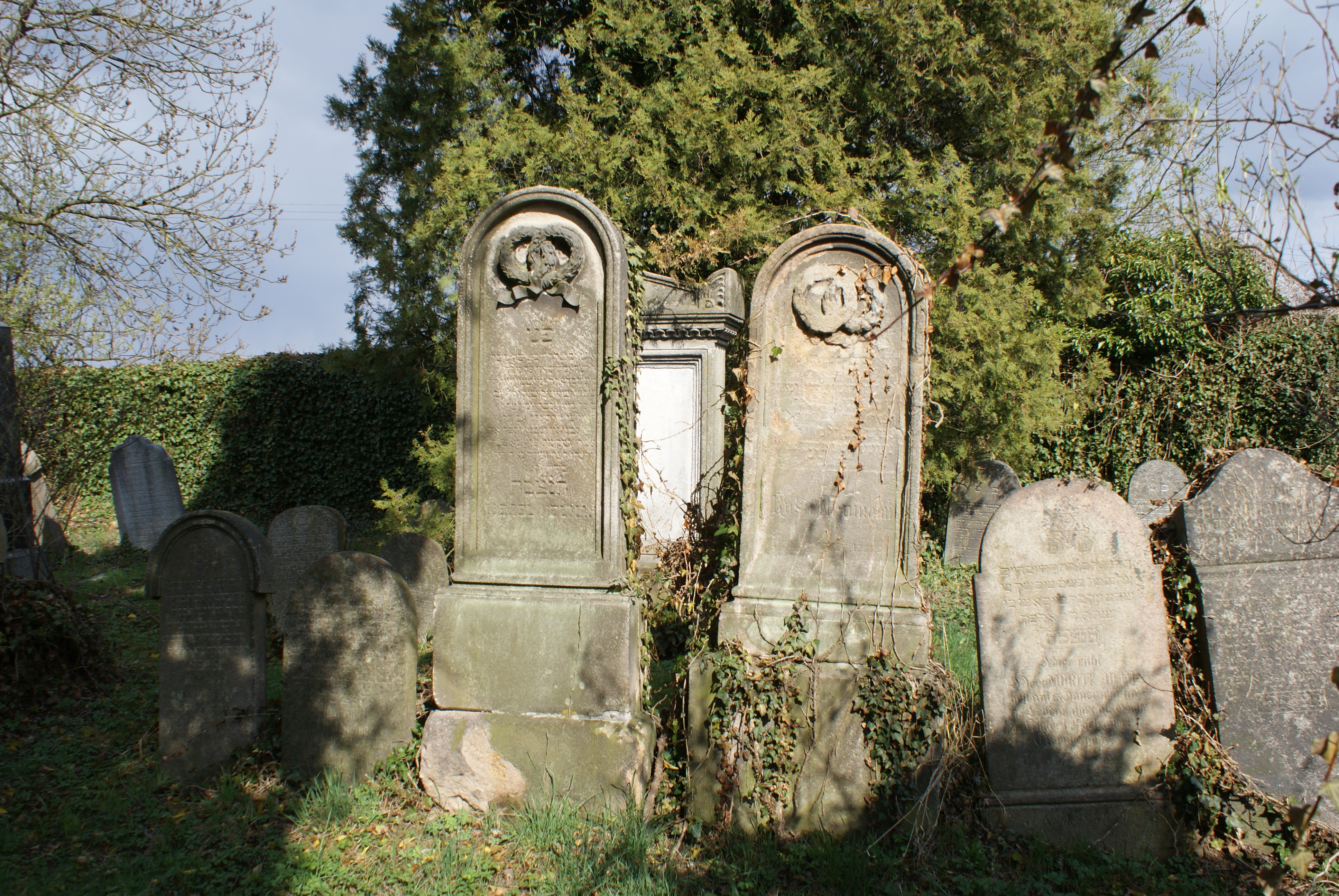 Jewish cemetery in Klatovy, Klatovy district, Czech Republic.